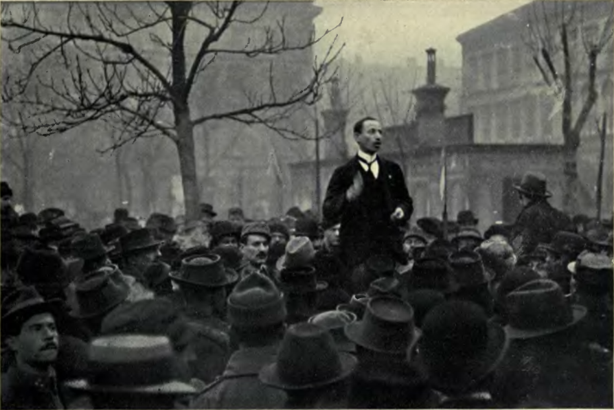 Communist orator, Hungary, late 1918-1919.